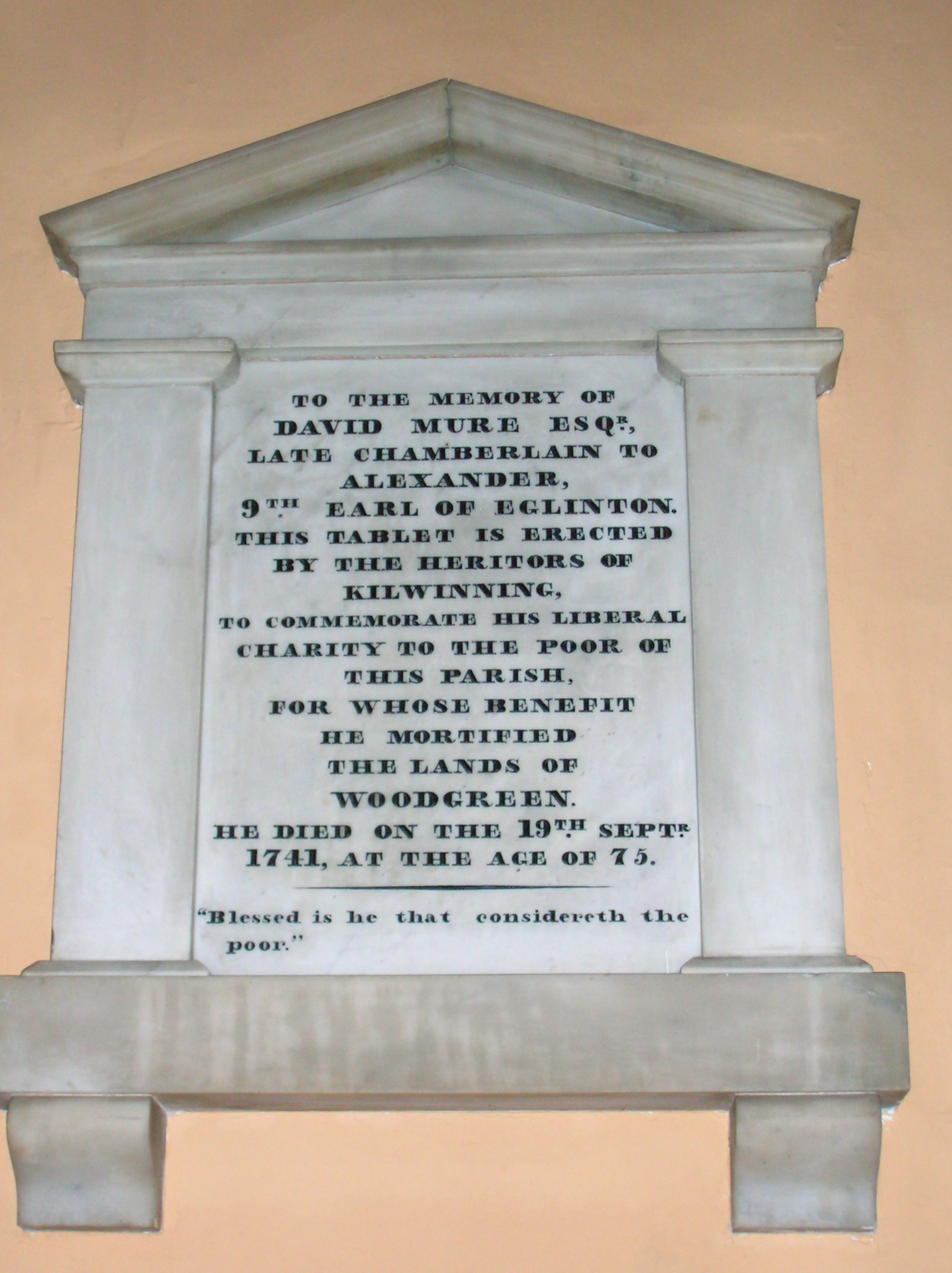 Memorial to David Mure, Chamberlain to the 9th Earl of Eglinton, Kilwining Abbey Church, North Ayrshire, Scotland.